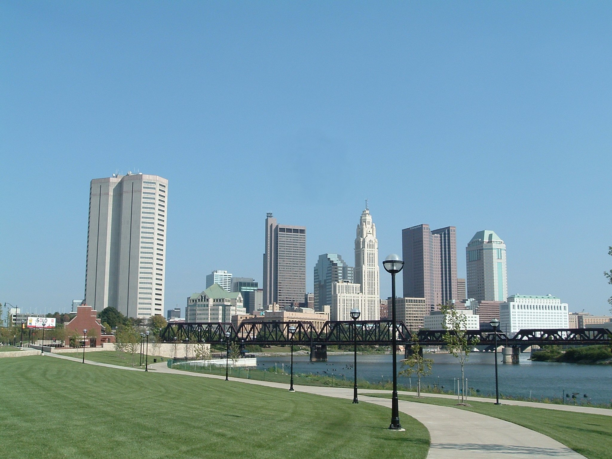 The skyline of Columbus, Ohio, USA from North Bank Park